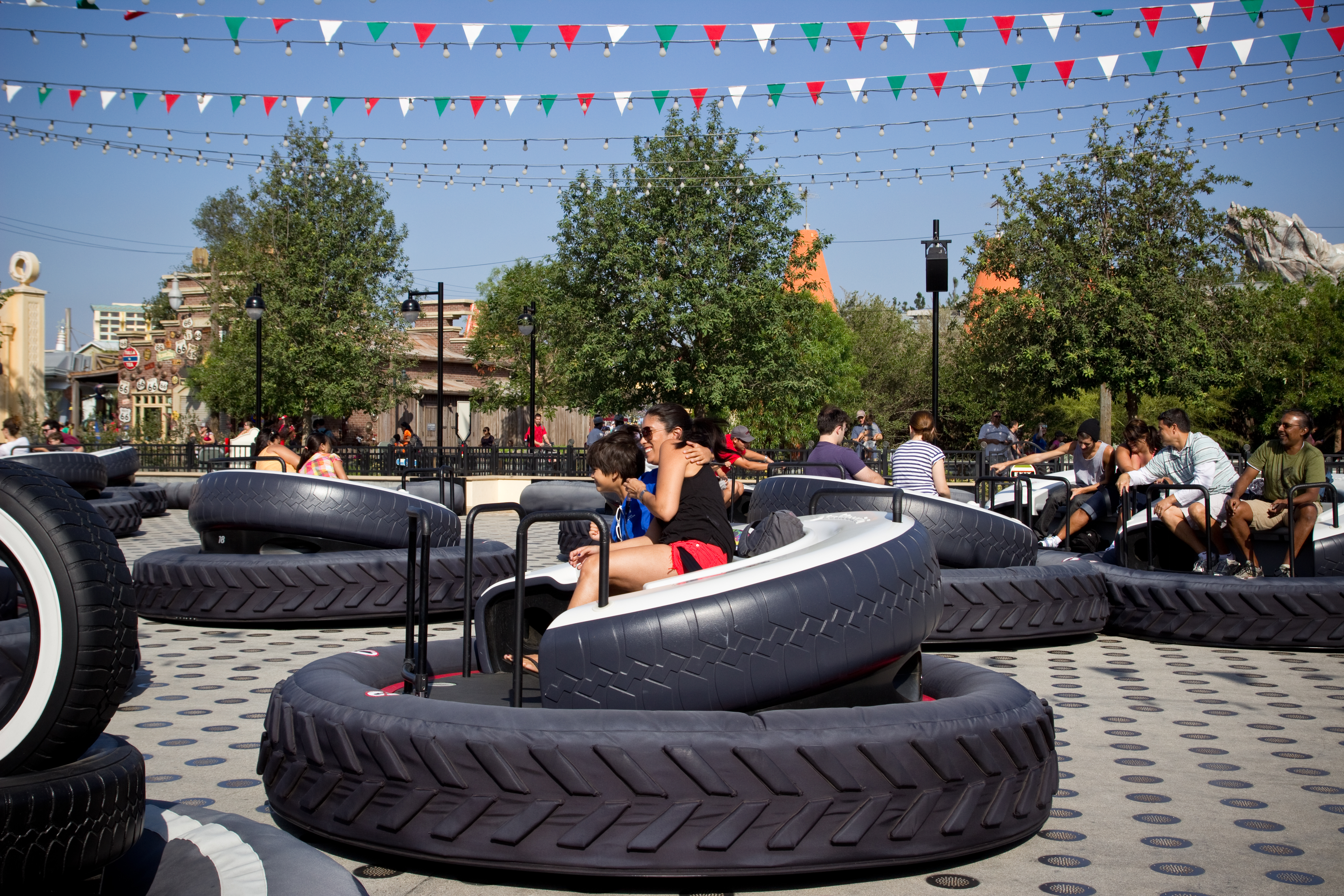 A look at Luigi's Flying Tires in Cars Land at Disney California Adventure.